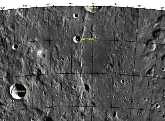 Part of the chart LAC-135.